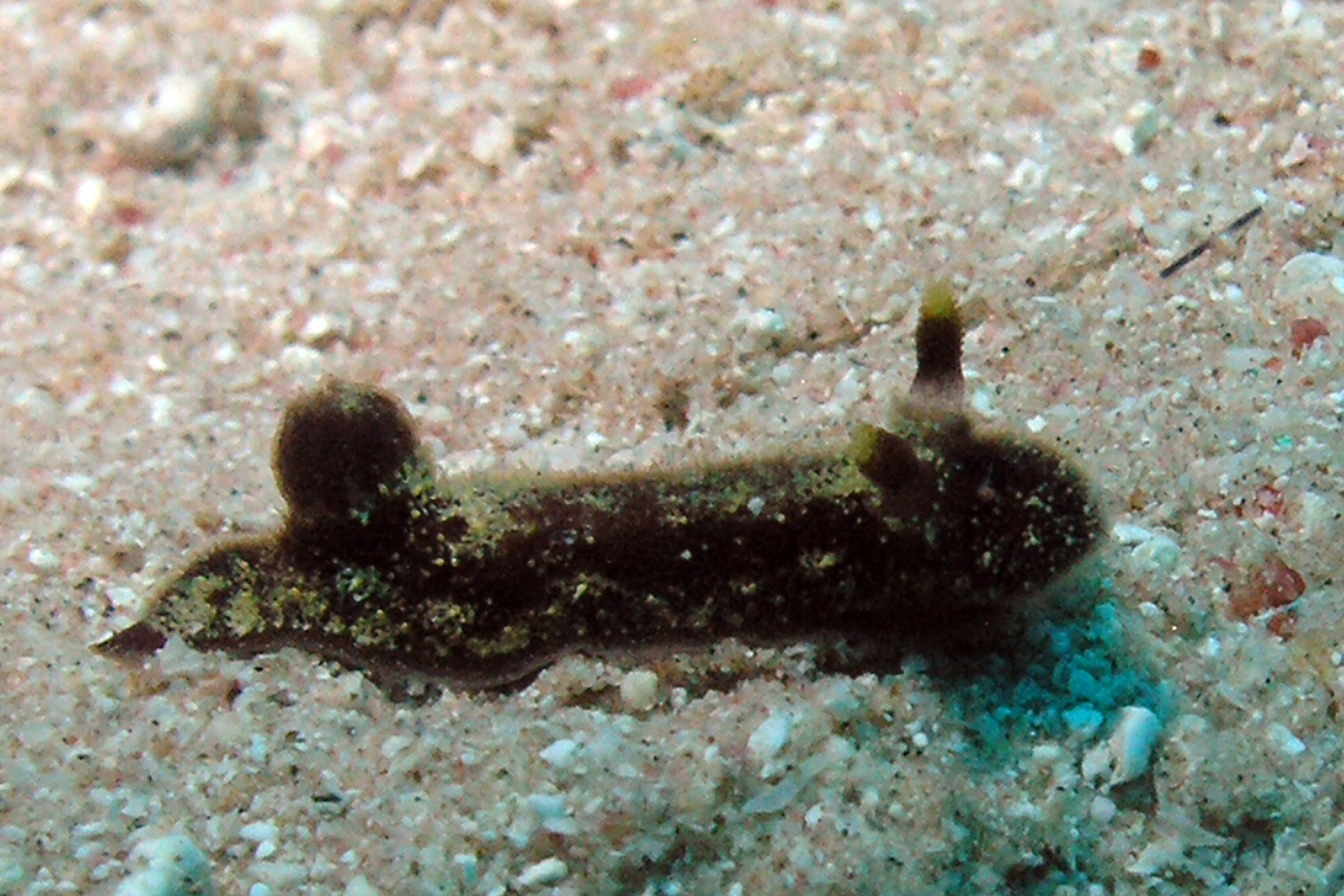 You can use this image under a Creative Commons license on condition you include a credit link to